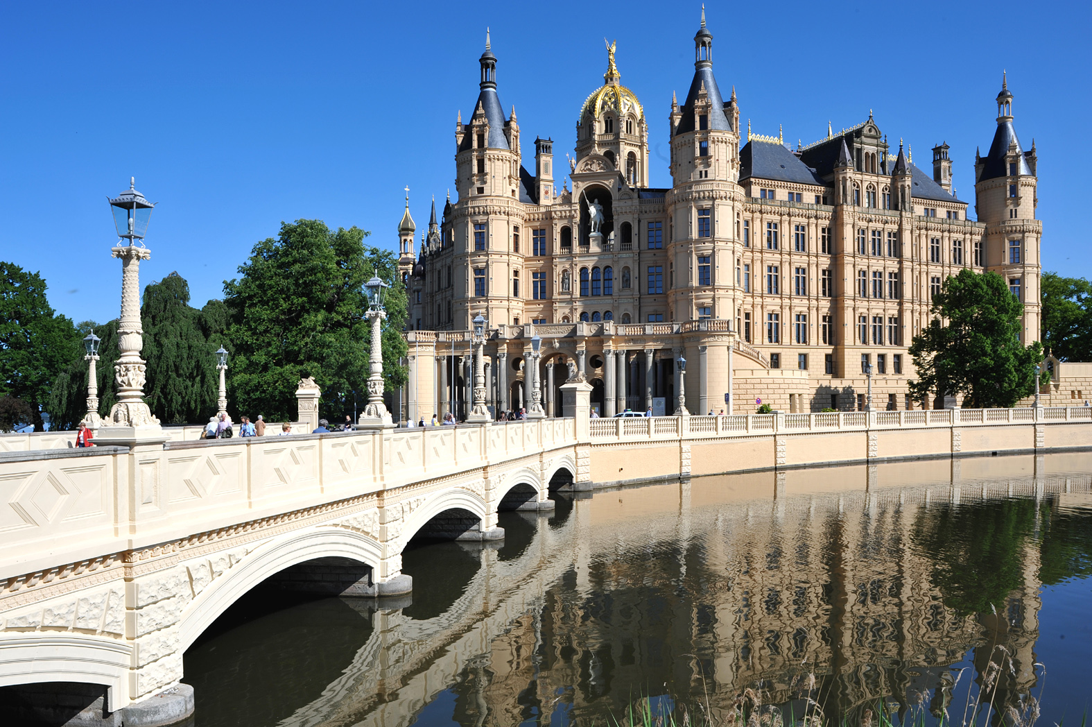 Castle bridge Schwerin with castle; Mecklenburg-Vorpommern, Germany.